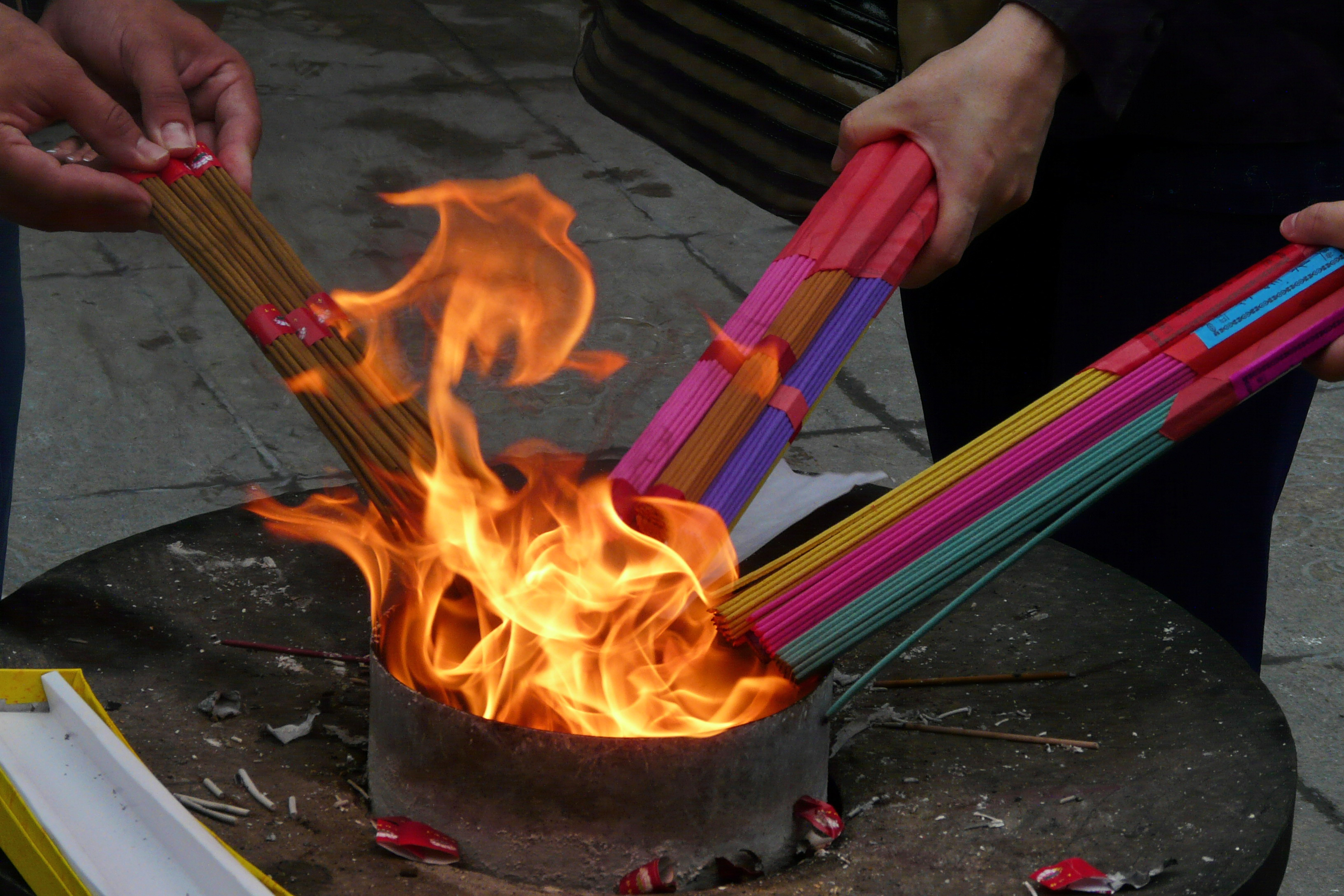 Joss sticks, Jade Buddha Temple, Shanghai